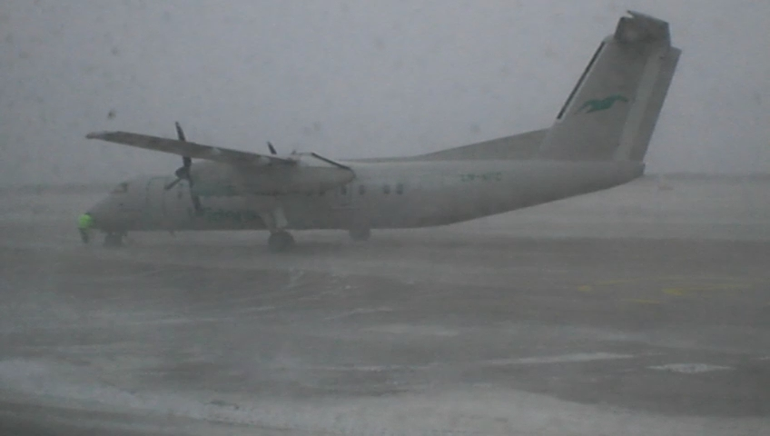 A Widerøe Dash 8-300 at Lakselv Airport, Banak in Norway